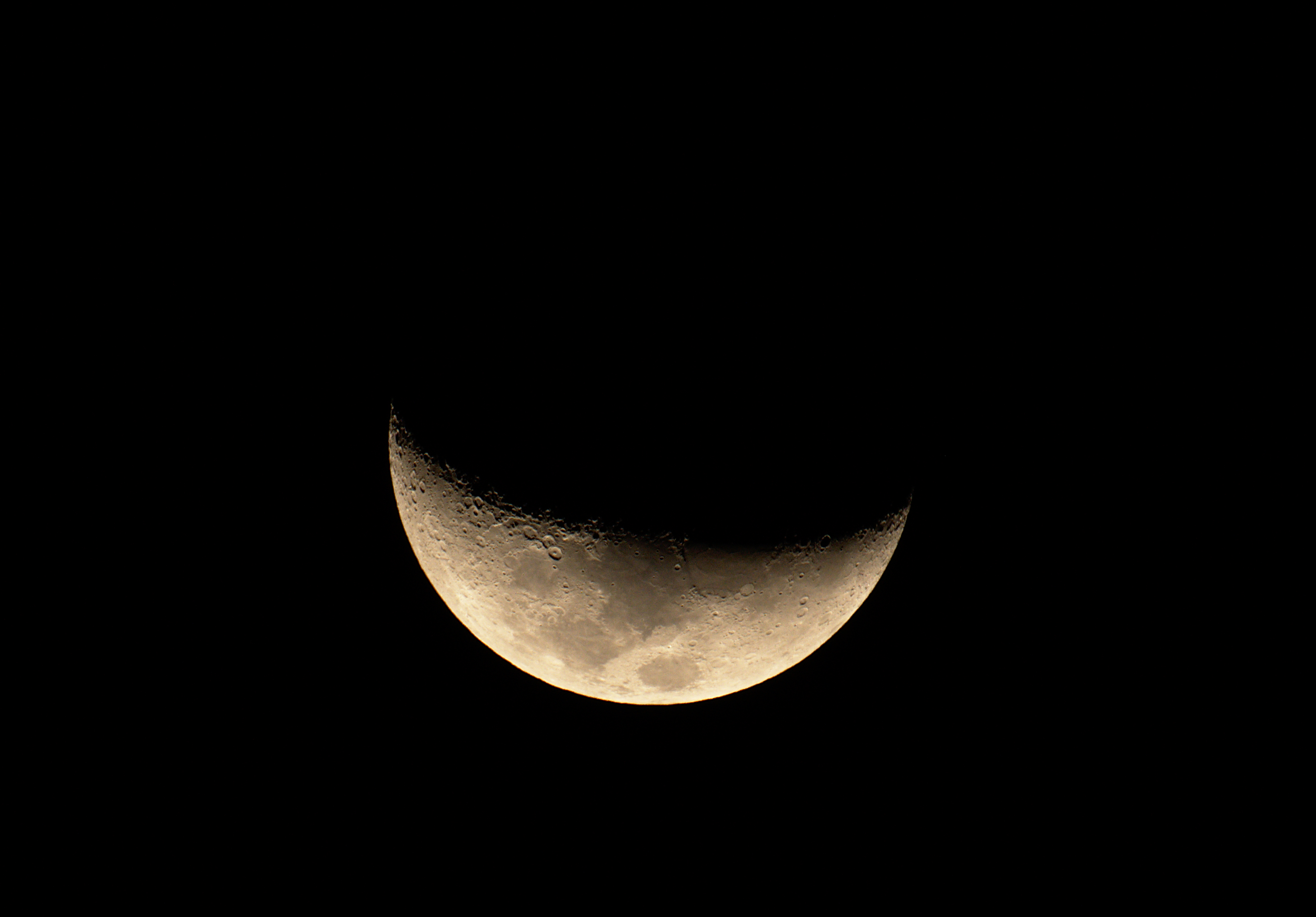 Cresent moon